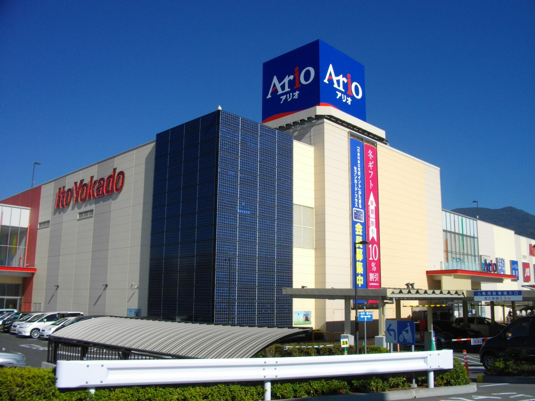 Ario Ueda